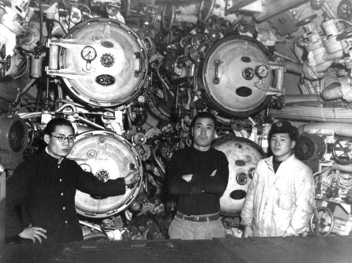 Forward torpedo room of I.58 on 28 January 1946 while awaiting scuttling at Sasebo, Japan. This submarine torpedoed and sank USS Indianapolis (CA-35) on 30 July 1945. USMC Photograph # 139986